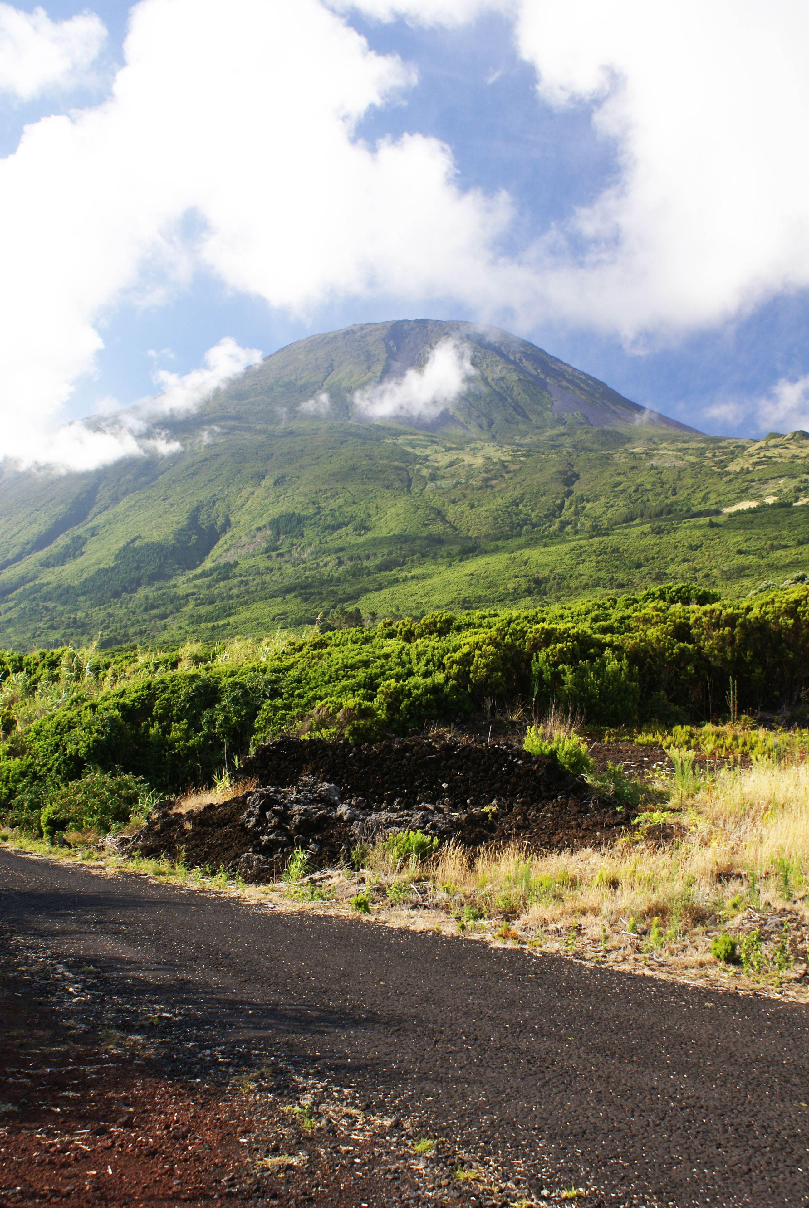 Montanha do Pico, aspectos 2 ilha do Pico, Açores, Portugal